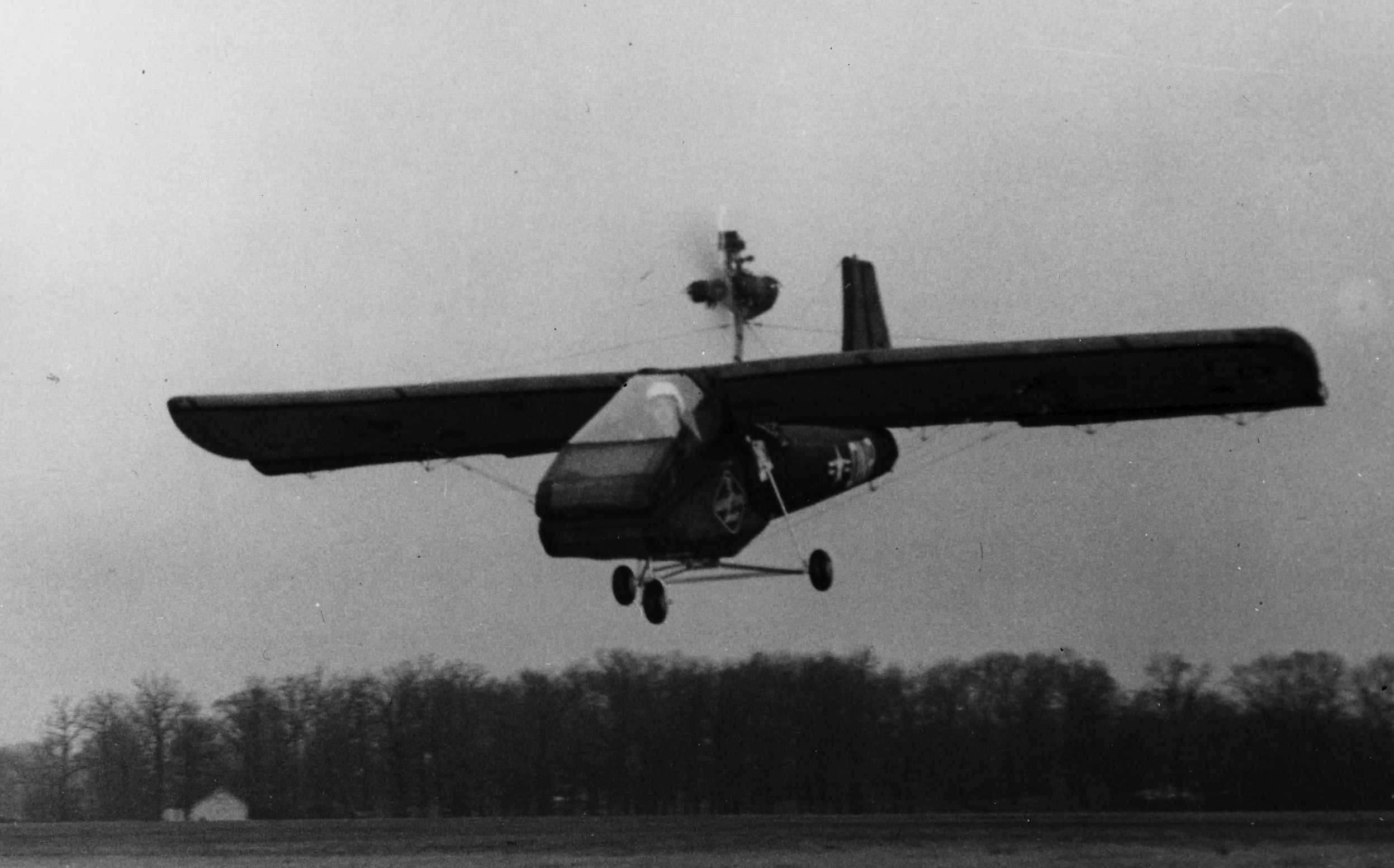 National Archives photo of Goodyear GA-447 Inflatoplane coming in to land during ONR flight testing.